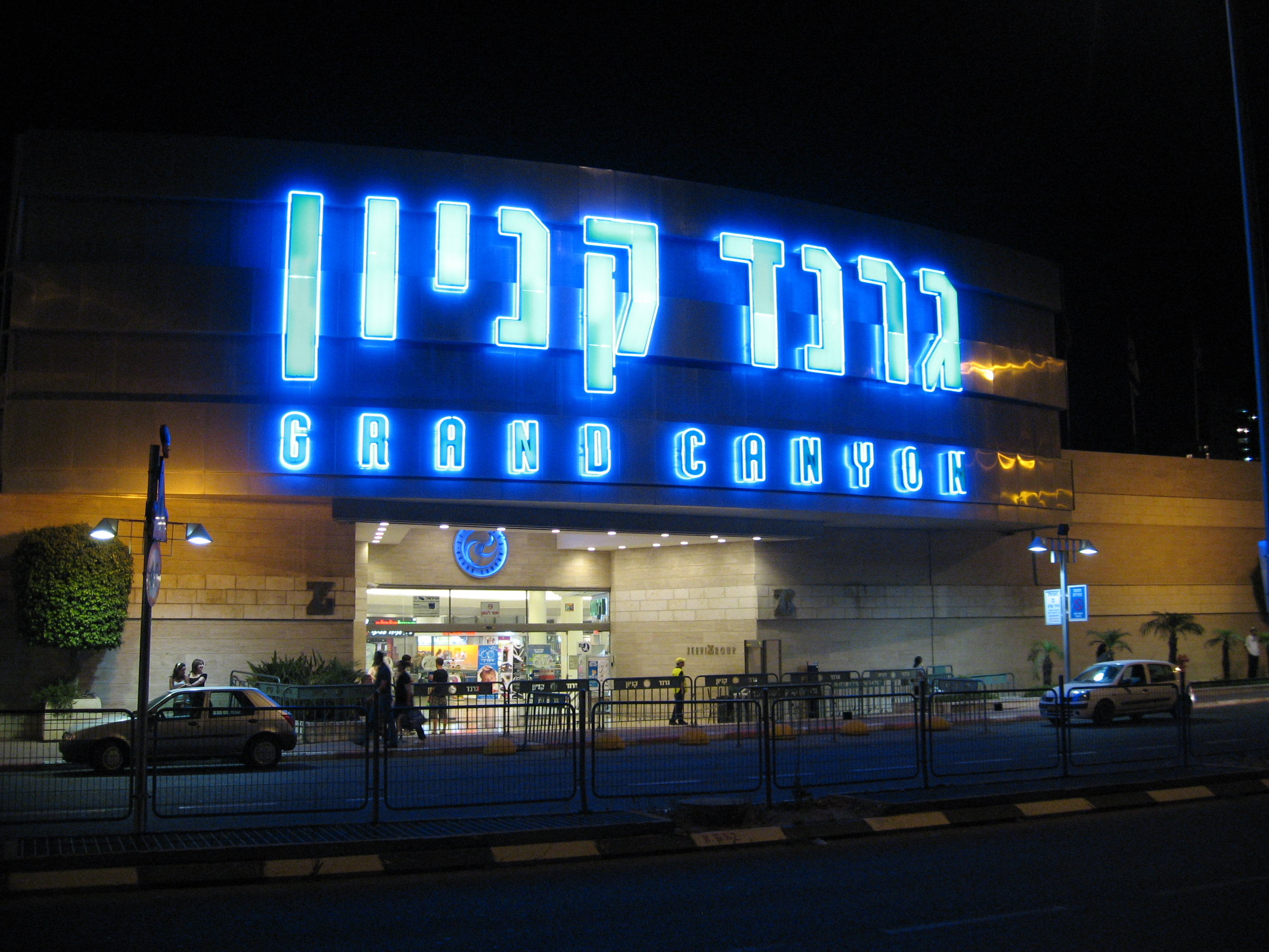 A photo of the main entrance to the Grand Canyon mall in Haifa, Israel.